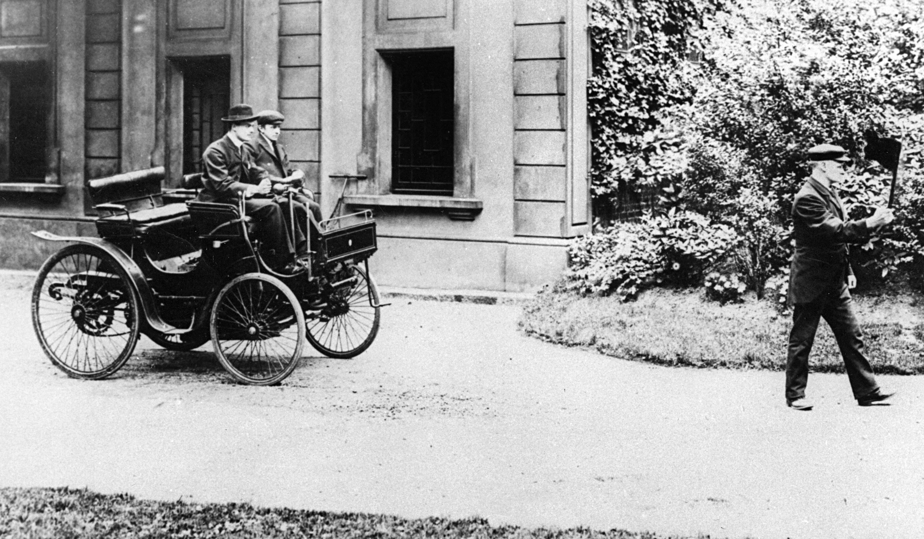 Charles Rolls (later co-founder of Rolls-Royce) driving a 1896 Peugeot; a man with a (red) warning flag walking in front, as mandated by the Locomotive Act 1865.